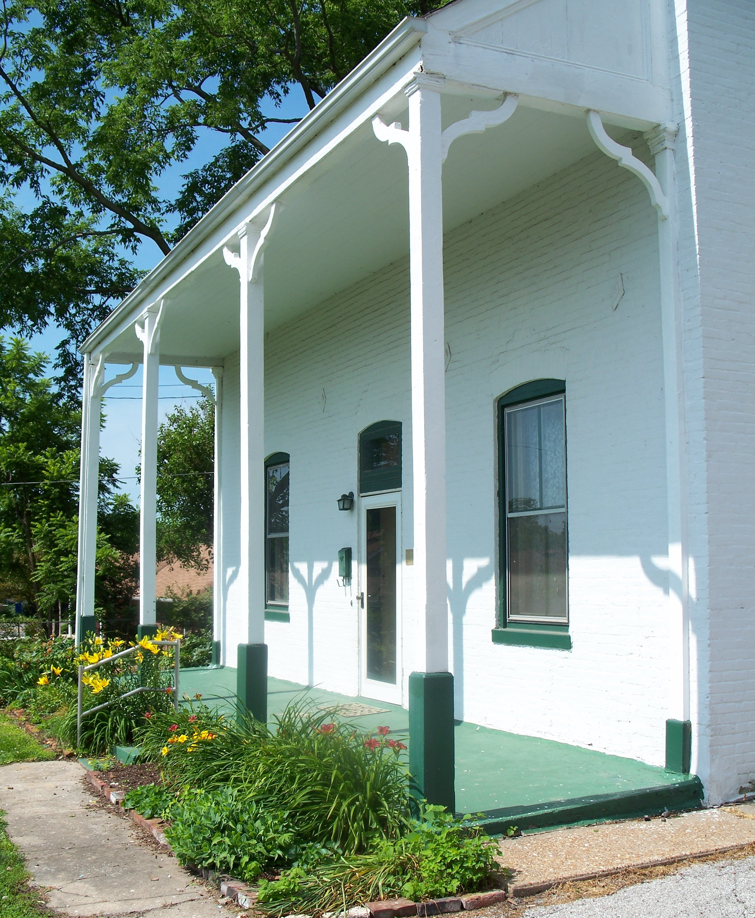 Historic Sutter-Meyer House located in University City, Missouri, USA. A current picture taken in 2007 depicts the front of this house.